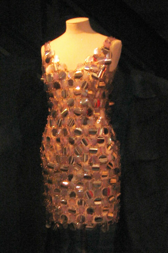 Dress by Paco Rabanne, 1967. Worn by Helen Bachofen von Echt, wife of Baron John Bachofen Von Echt, at New York party where she danced with Frank Sinatra. See: Evening mini-dress with body stocking and packaging. Victoria and Albert Museum, London. Victoria and Albert Museum, London photo from flickr by Nadia Priestly